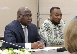 Félix Tshisekedi, president of DRC, and Eteni Longondo, Health minister of DRC, during a meeting with Vladimir Putin at a Russia-Africa Summit in Sotchi.